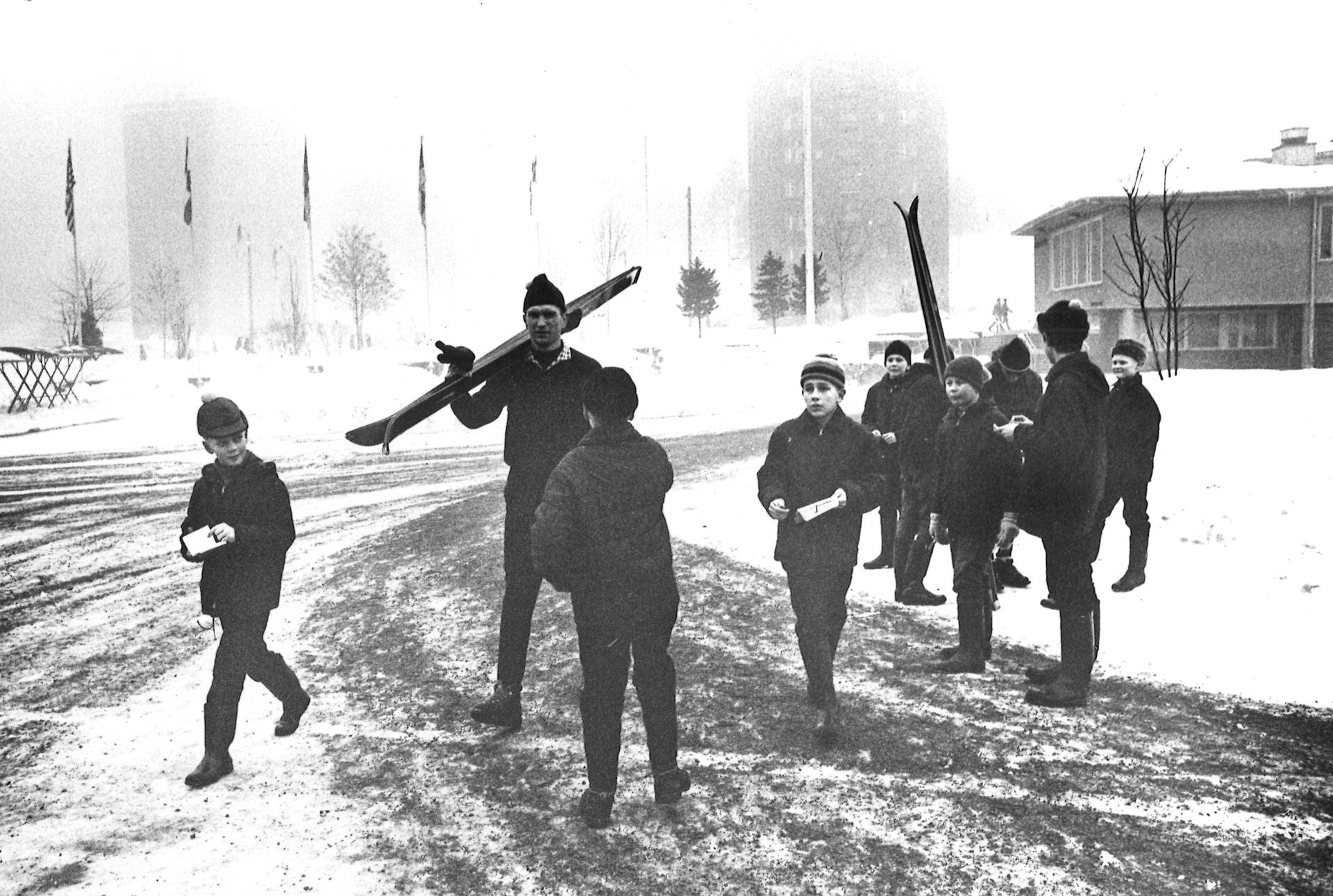 Photograph of the German ski jumper Henrik Ohlmeyer (1946–) in Lahti Ski Games, Finland, with young autograph hunters. Photo taken at the yard of Lahden Ammattikoulu, currently Lahti University of Applied Sciences.